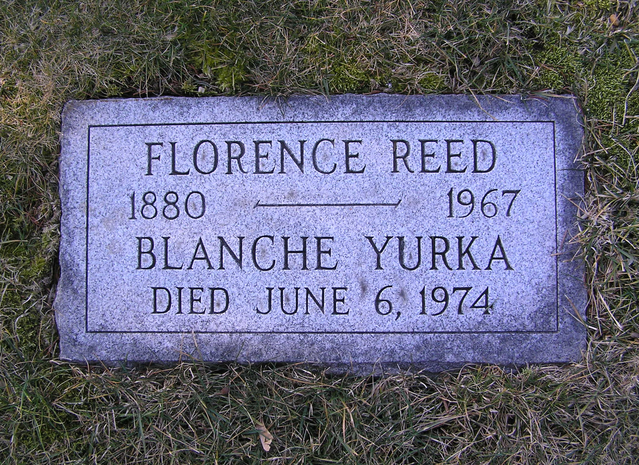 The footstone of Blanche Yurka in the Actors Fund of America at Kensico Cemetery, Valhalla, NY The footstone of Blanche Yurka in the Actors Fund of America at Kensico Cemetery, Valhalla, NY